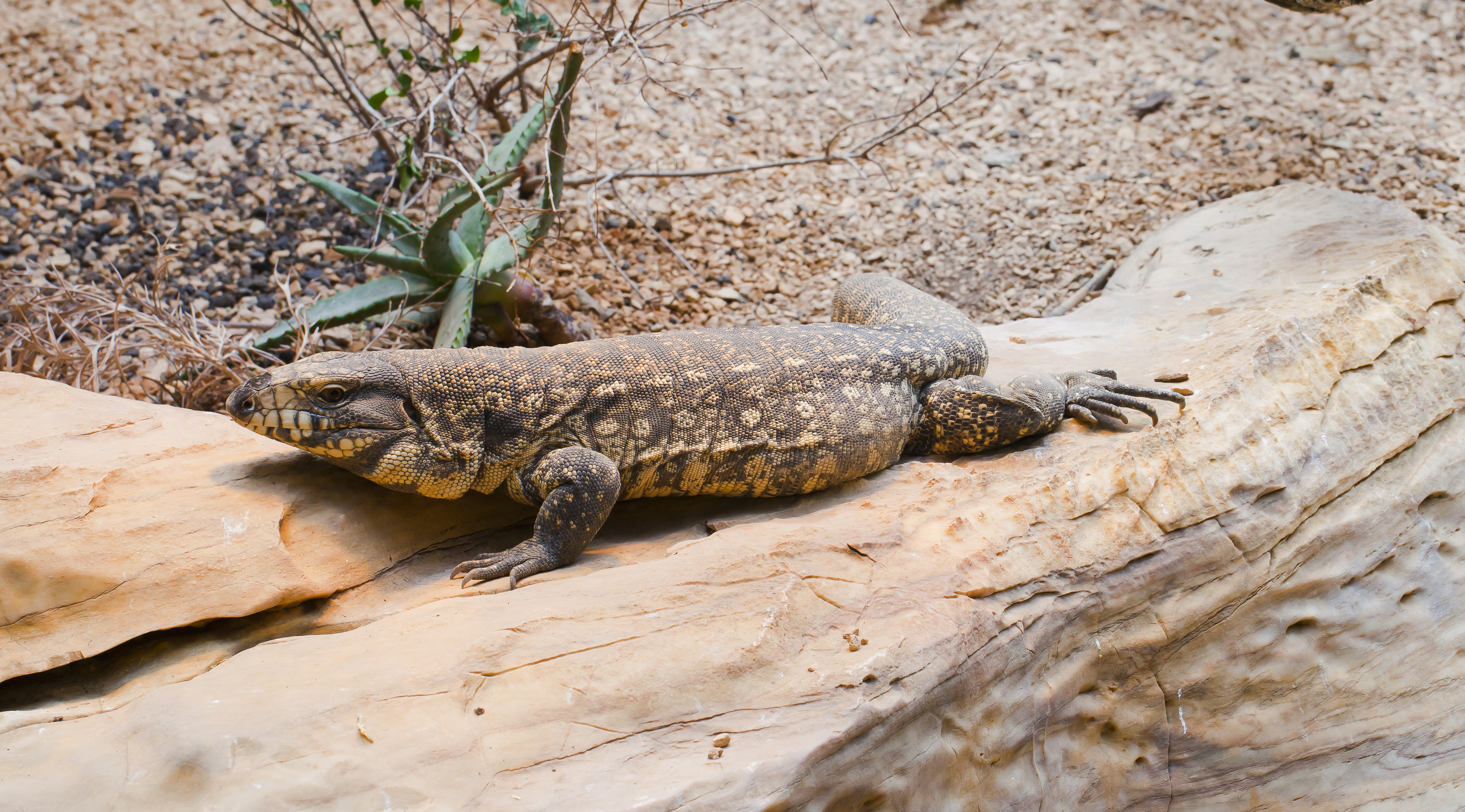 Argentine black and white tegu (Tupinambis merianae), Tierpark Hellabrunn, Munich, Germany